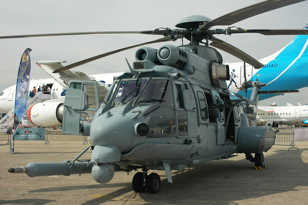 Eurocopter Cougar EC-725 MkII+